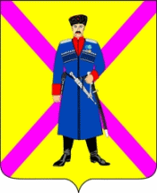 Coat of arms of Srednechelbaskoye, Pavlovskaya Rayon, Krasnodar Krai, Russia.